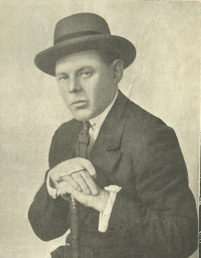 Photograph of Guy Newall in a supplement to The Cinema, August 5, 1920